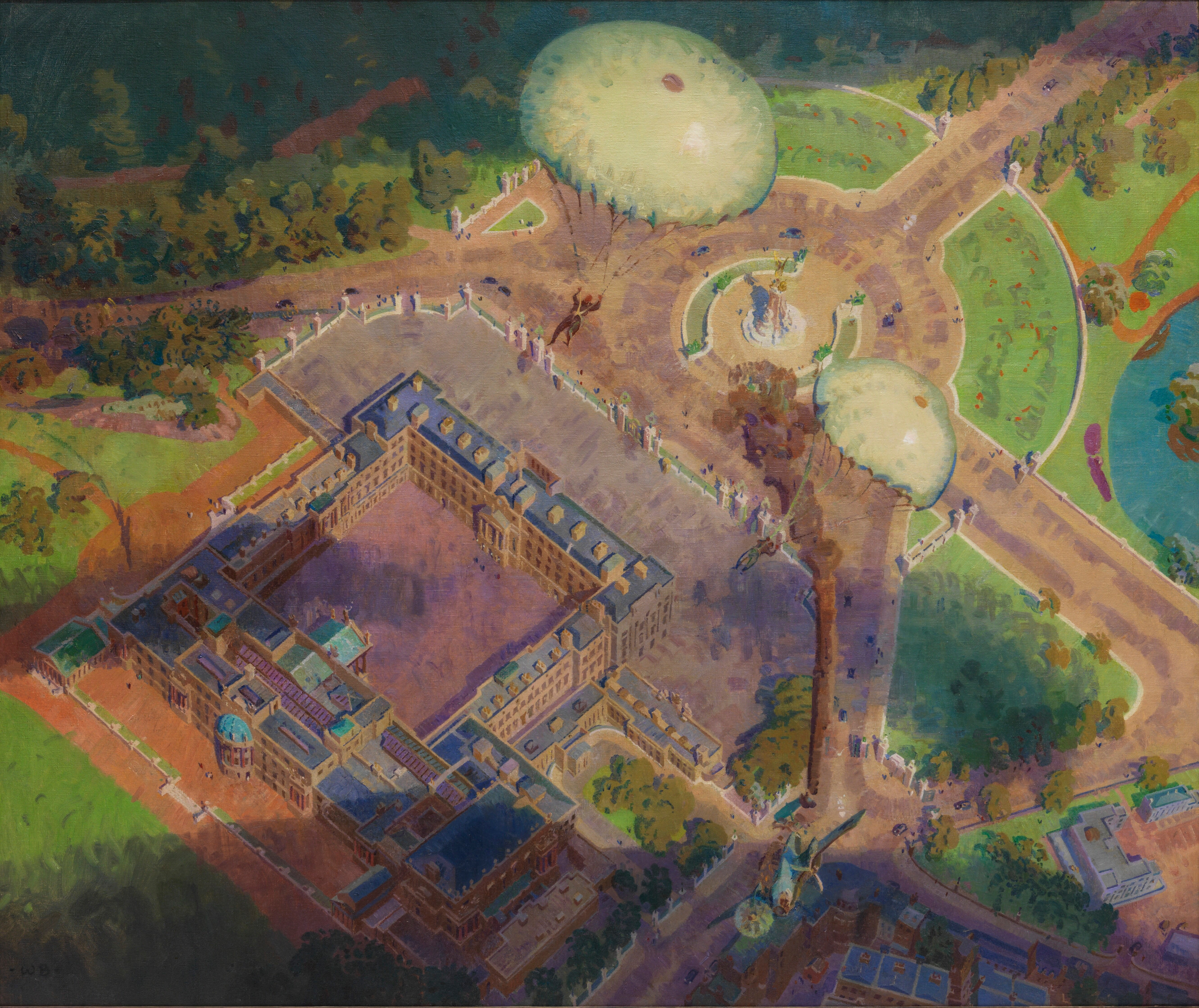 An aerial view of Buckingham Palace and surroundings with two German airmen parachuting to the ground with a plane crashing out of control.